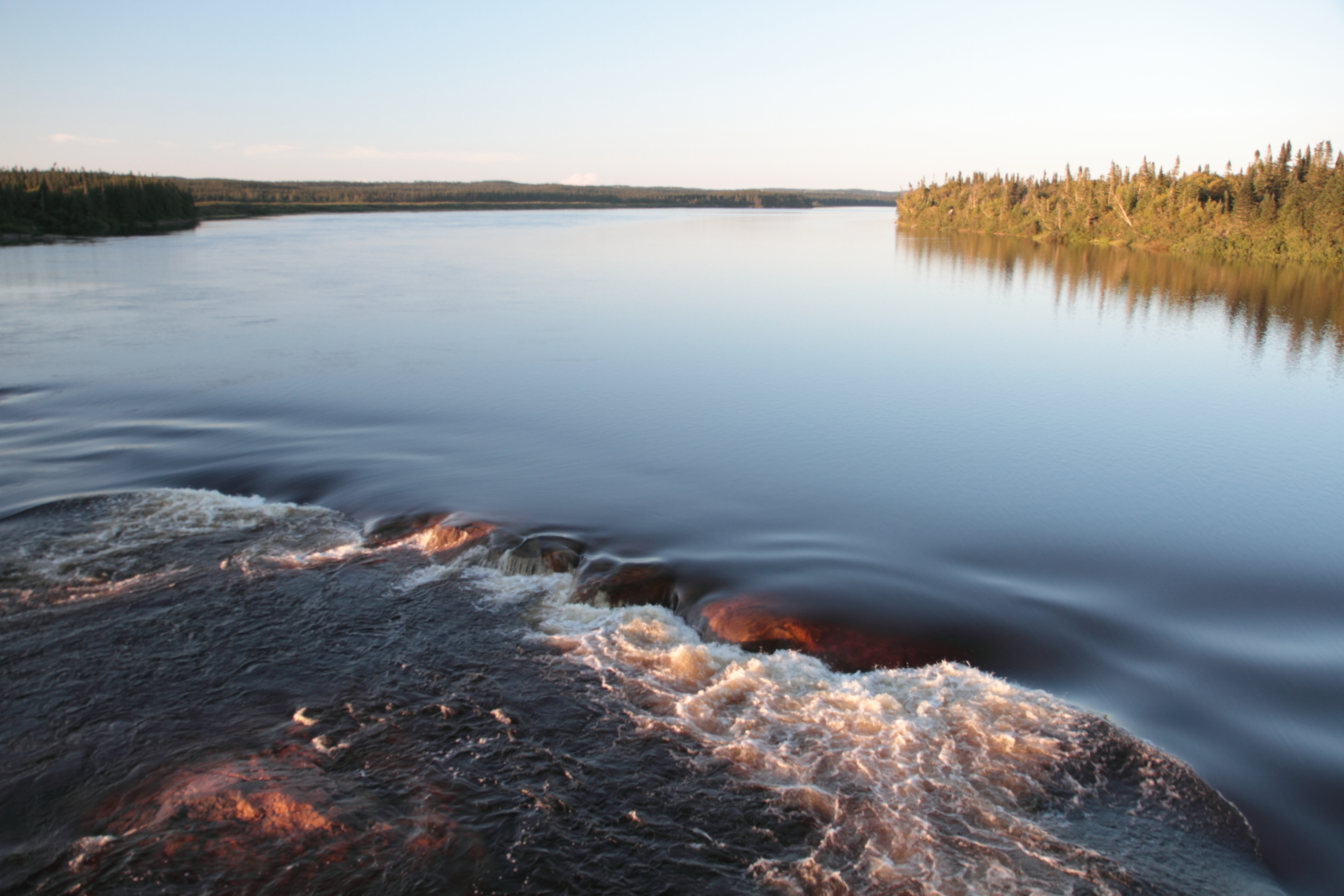 Romaine River, Quebec, Canada